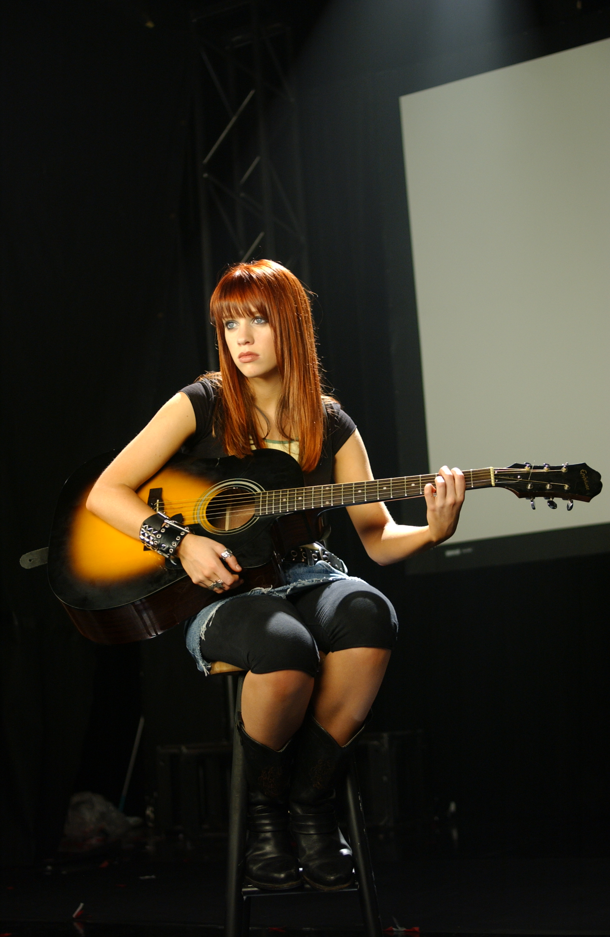 Alexz Johnson as Jude Harrison in Instant Star (seated, with guitar)